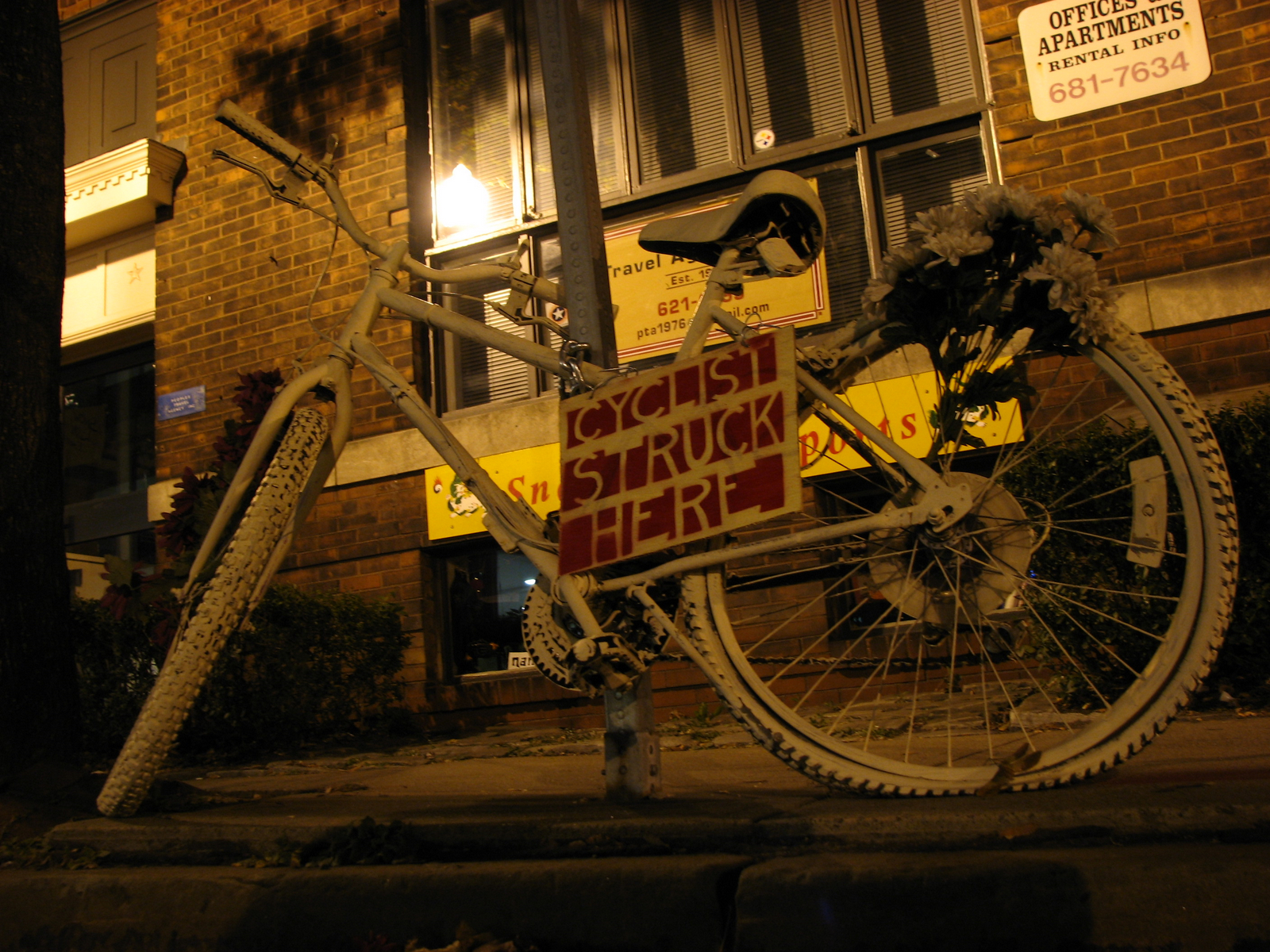 When I started on educational leave, my plan was to ride my bike to the internship and back. I thought it was a great idea: I'd get in better shape, save on gas, parking, and give my transmission a break. No problems, right? Then I took my bike on the Pittsburgh streets and it scared the shit out of me. Cars would happily run you off the road or just ignore you completely. I sometimes wonder how anyone rides in Pittsburgh. I saw this out of the corner of my eye on Friday and was able to stop and get this picture early Sunday morning. Ghost Bikes are set up by the biking community whenever one of their own is injured or killed by a careless driver. They're basically what you see here: an old bike spray painted white and affixed with a sign letting drivers know exactly what happened. Sometimes its a warning, sometimes a plea, sometimes a tombstone. I had heard about these popping up in New York. Seeing one of these in Pittsburgh literally chills me.